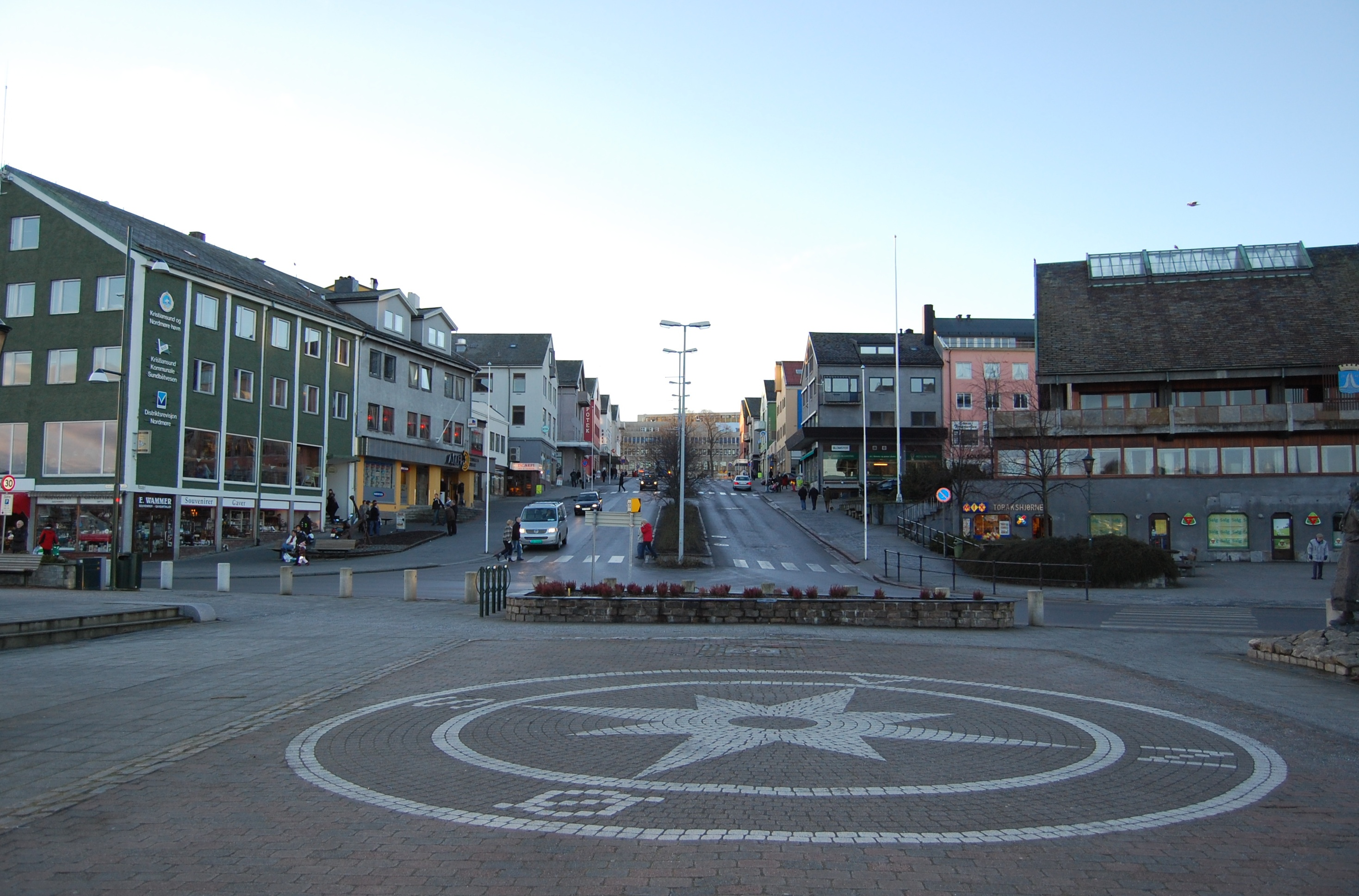 The street "Kaibakken" in Kristiansund